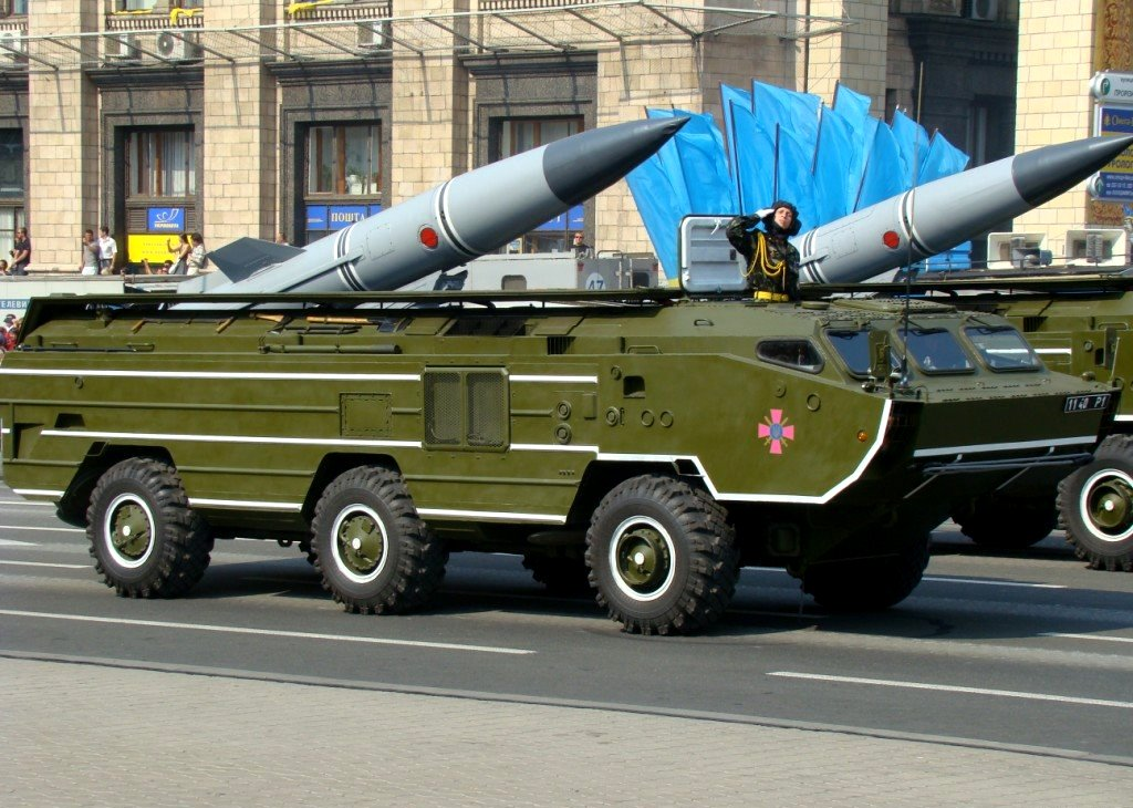 Ukrainian OTR-21 Tochka missiles during the Independence Day parade in Kiev, Ukraine in 2008.